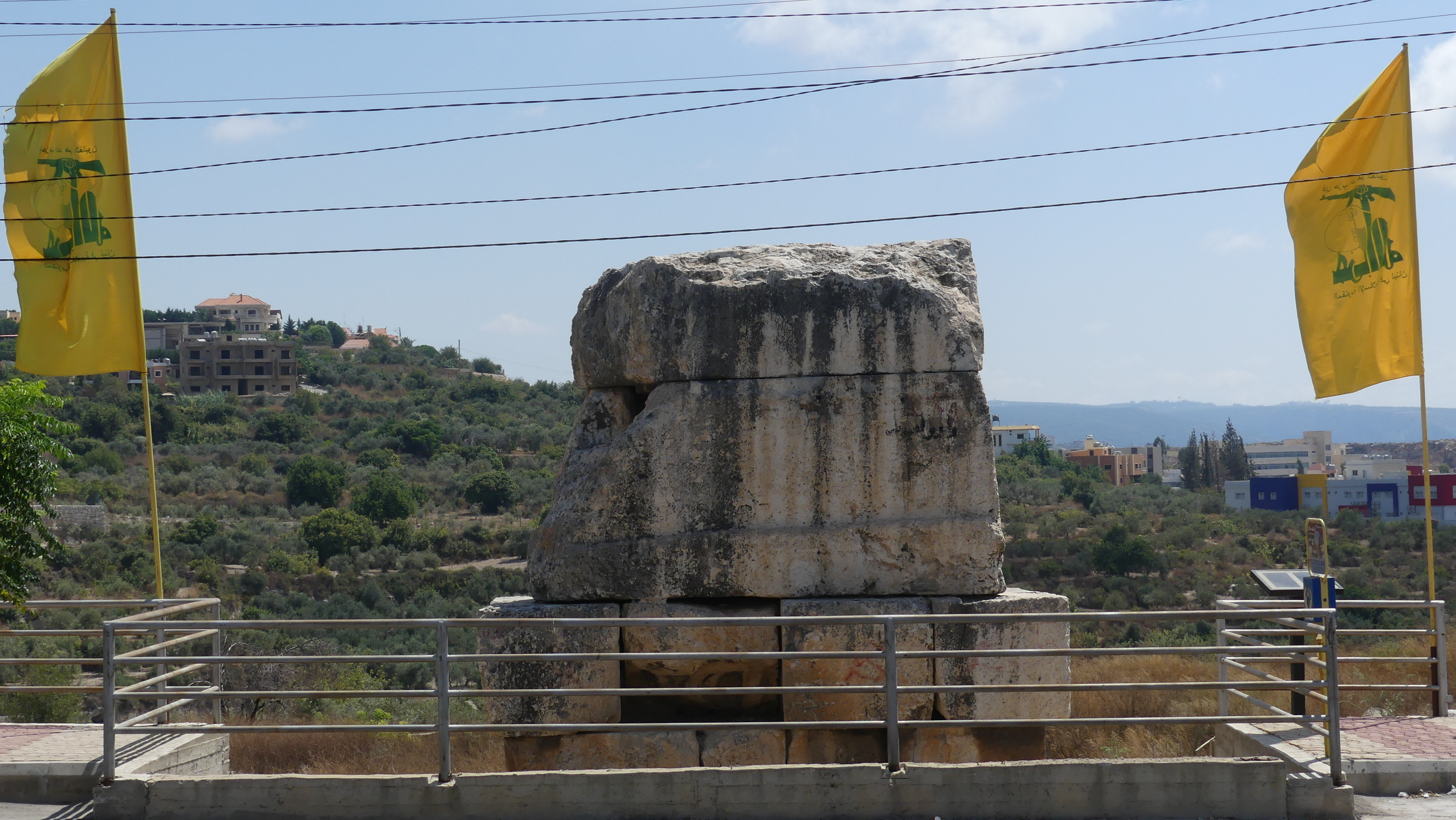 Sarcophagus known as the Tomb of Hiram I (c. 1.000 - 947 B.C.), Phoenician King of Tyre, but dated to the Persian period (6th century B.C.). On the road between Ain Baal and Qana, framed by Hezbollah flags.